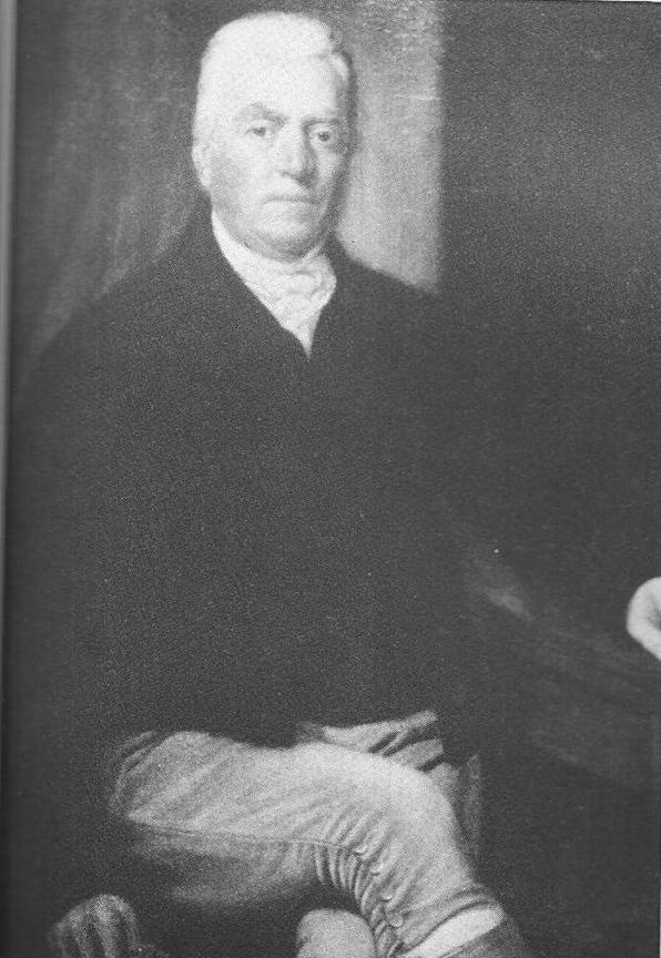 Joseph Whidbey, a member of the Royal Navy who served on the Vancouver Expedition 1791–1795, and later achieved renown as a naval engineer